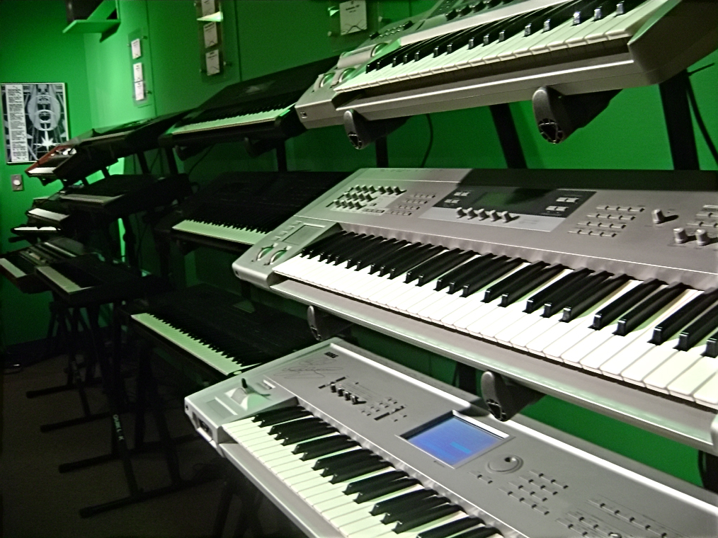 A recent acquisition at the Cantos Foundation museum of keyboard & electronic instruments. KORG donated these beauties to the Cantos Foundation. I'll admit. I SQUEEEE many many times tonight. Visited the Cantos tonight and got a lovely tour of the facilities. Took a lot of pictures & videos. what is 'squeeee'? the sound a musical geeky fan girl makes when confronted with blinky lights and keyboards and patch cables and mod wheels and a lot of electronics. kinda sounds like 'gleeeee'. Korg Prophecy (1995) Korg Z1 (1997) Korg Triton (1999)